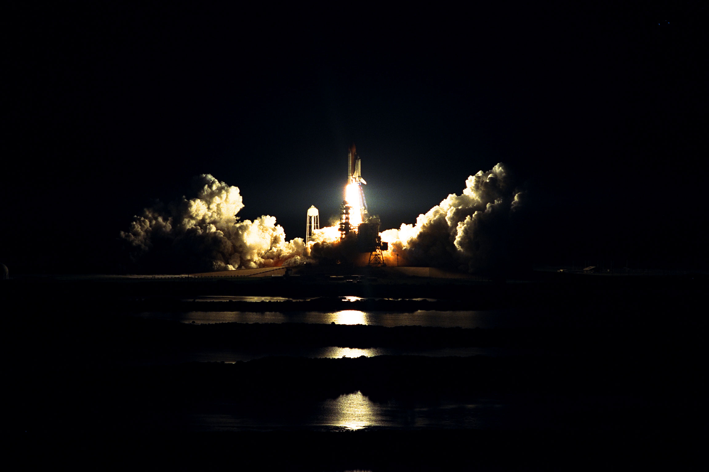 The Space Shuttle Atlantis blazes through the night sky to begin the STS-86 mission, slated to be the seventh of nine planned dockings of the Space Shuttle with the Russian Space Station Mir. Liftoff on Sept. 25 from Launch Pad 39A was at 10:34:19 p.m. EDT, within seconds of the preferred time, during a six-minute, 45-second launch window. The 10-day flight will include the transfer of the sixth U.S. astronaut to live and work aboard the Mir. After the docking, STS-86 Mission Specialist David A. Wolf will become a member of the Mir 24 crew, replacing astronaut C. Michael Foale, who will return to Earth aboard Atlantis with the remainder of the STS-86 crew. Foale has been on the Russian Space Station since mid-May. Wolf is scheduled to remain there about four months. Besides Wolf (embarking to Mir) and Foale (returning), the STS-86 crew includes Commander James D. Wetherbee, Pilot Michael J. Bloomfield, and Mission Specialists Wendy B. Lawrence, Scott E. Parazynski, Vladimir Georgievich Titov of the Russian Space Agency, and Jean-Loup J.M. Chretien of the French Space Agency, CNES. Other primary objectives of the mission are a spacewalk by Parazynski and Titov, and the exchange of about three-and-a-half tons of science/logistical equipment and supplies between Atlantis and the Mir.